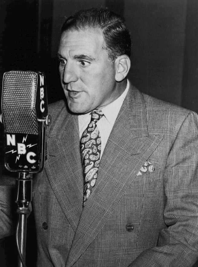 Photo of William Bendix as Chester Riley from the radio version of The Life of Riley.